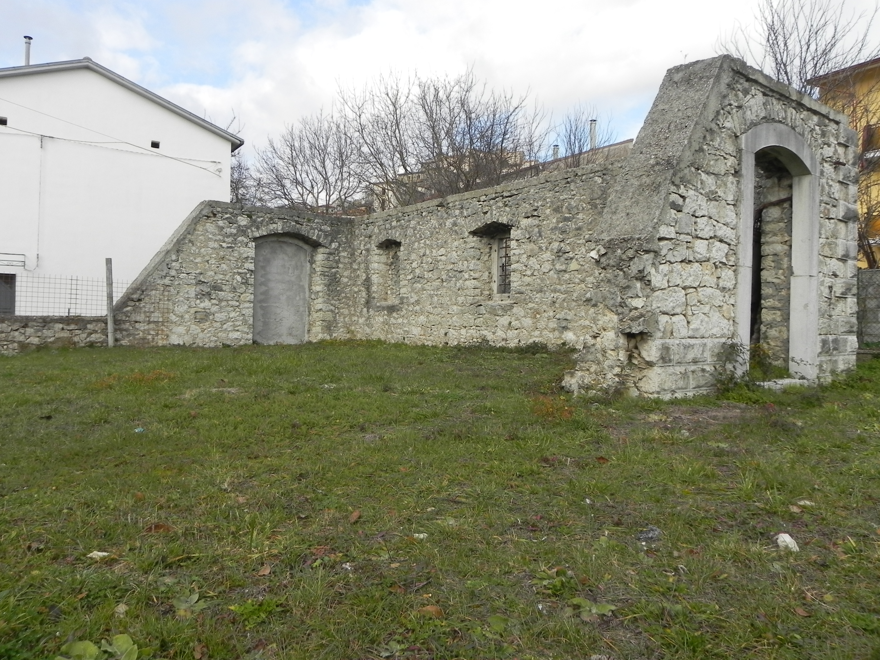 House bombed during the Second World War